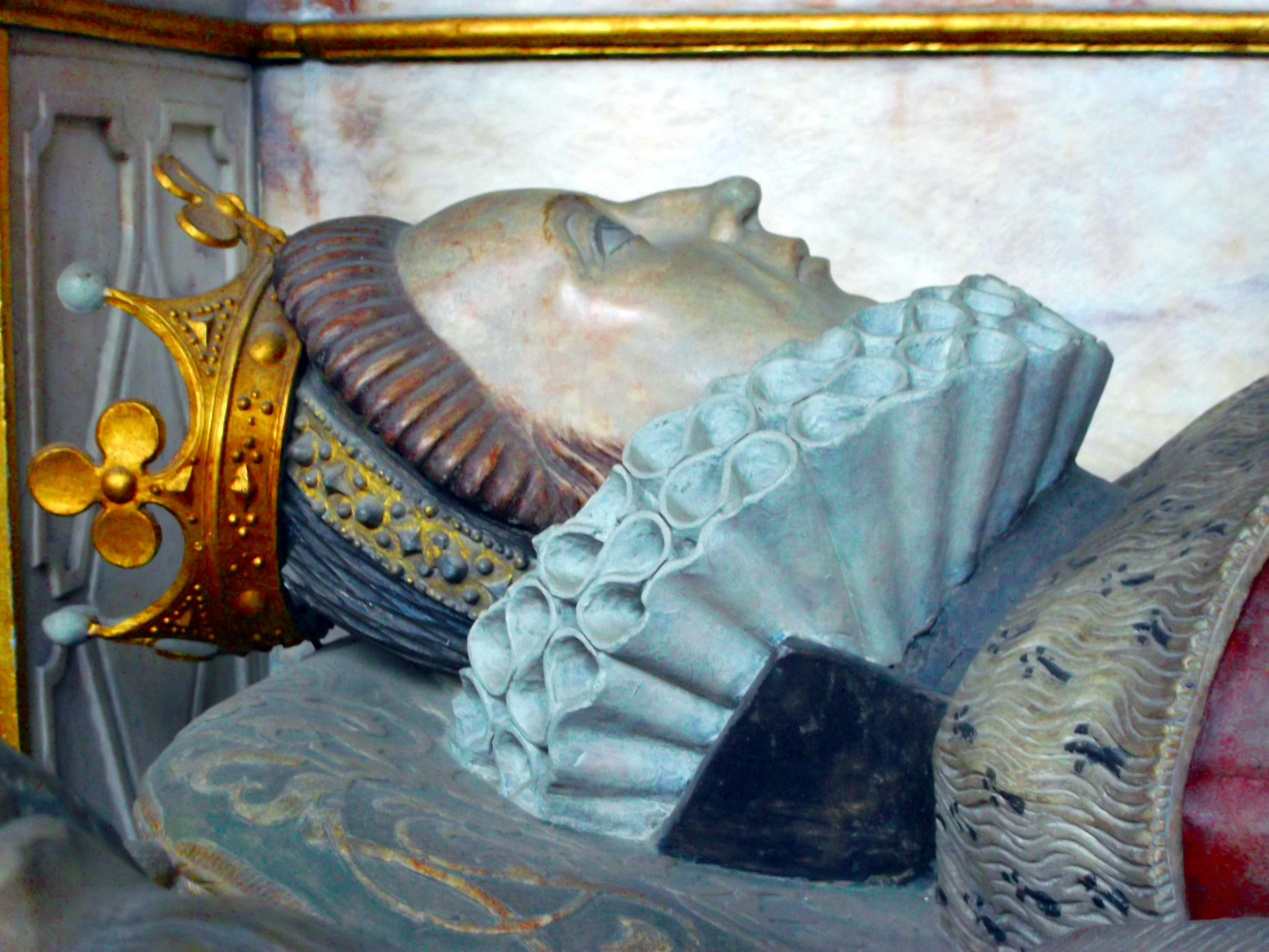 Effigy of Lettice Knollys. Tomb of Robert Dudley and Lettice Knollys, Collegiate Church of St Mary, Warwick.